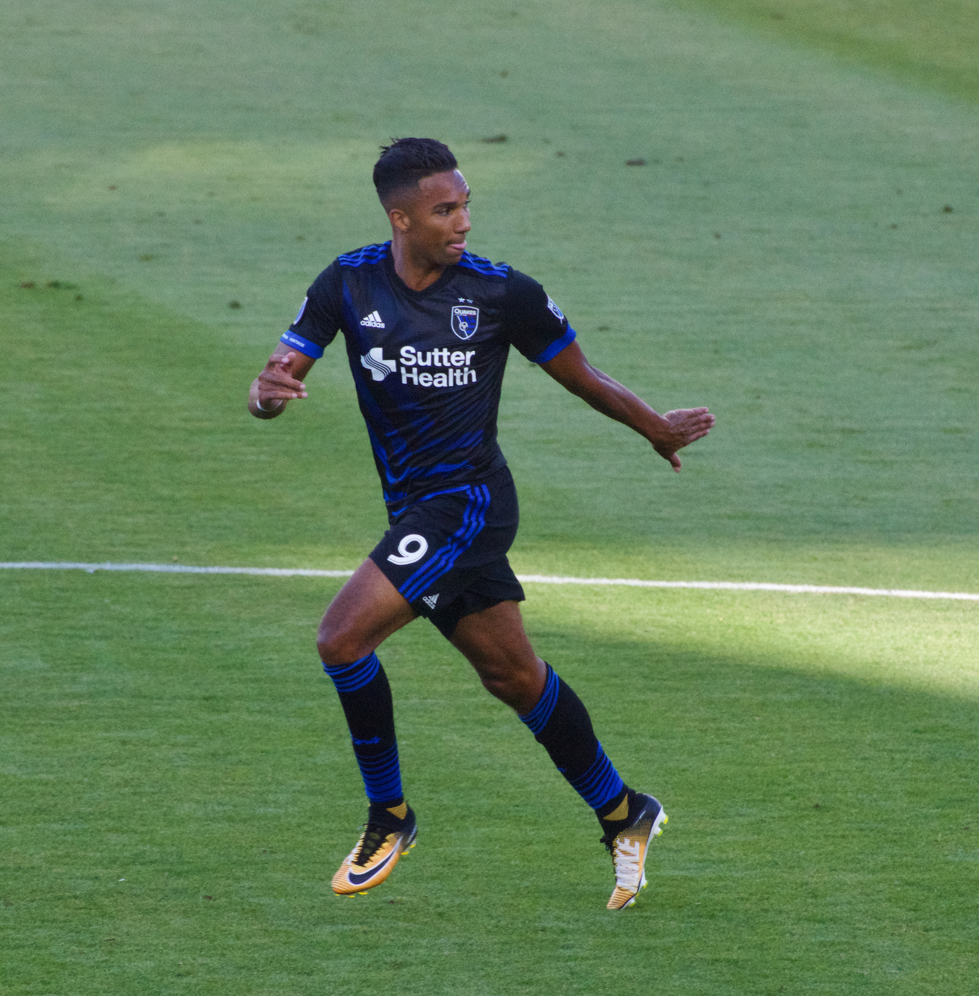 Danny Hoesen appears to stiff-arm an imaginary pursuer. Avaya Stadium, 29 July 2017.